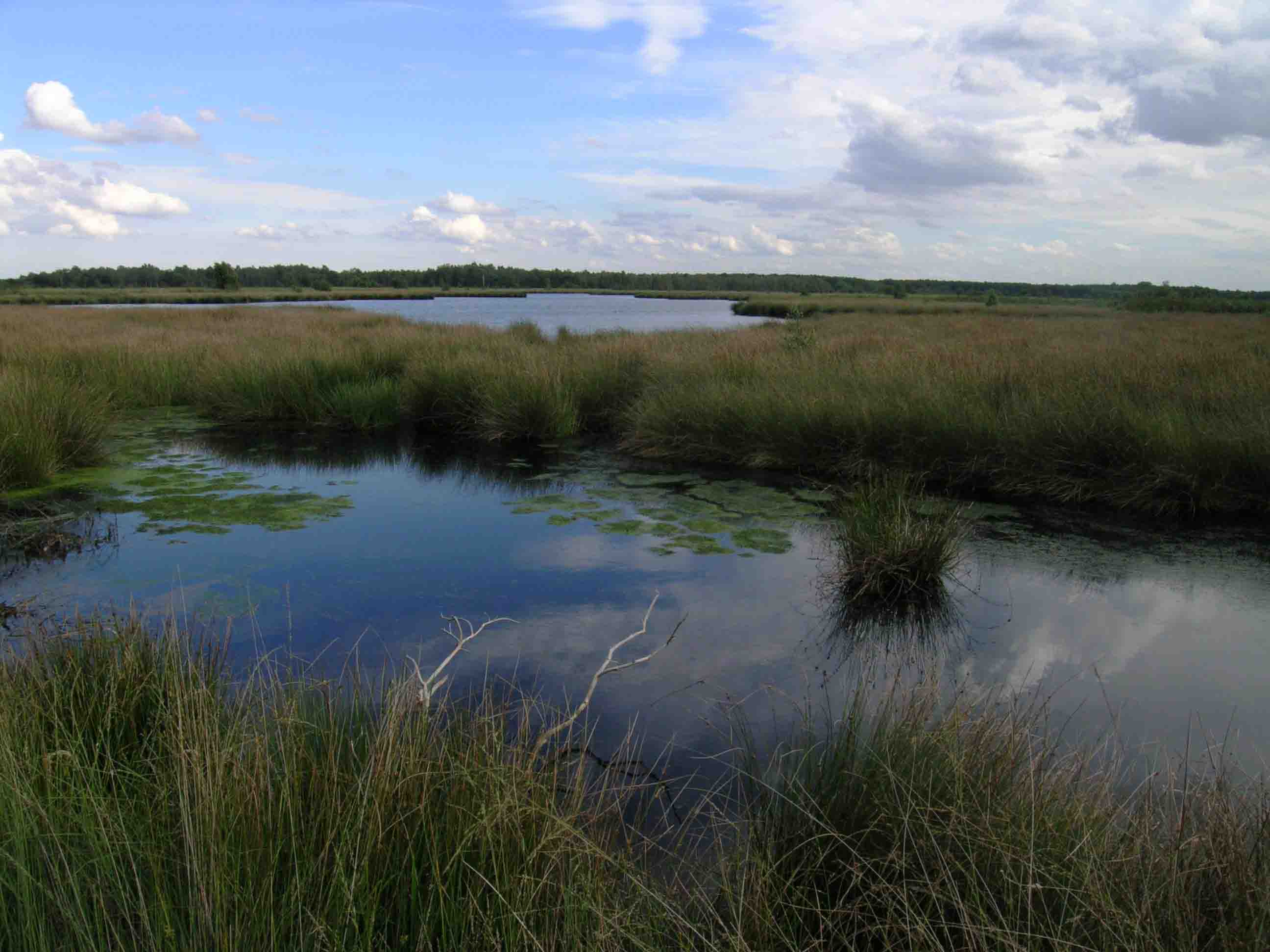 Photograph by Dirk van der Made (User:DirkvdM - for more photos see user:DirkvdM/Photographs). Taken in national park 'De Grote Peel' in 'de Peel' in the Netherlands.